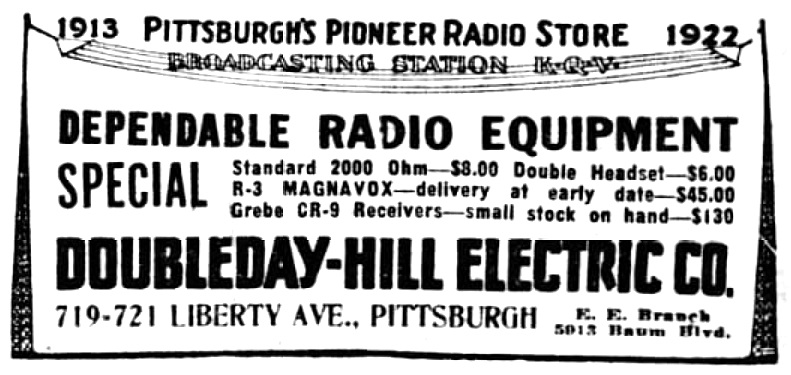 Newspaper advertisement for the Doubleday-Hill Electric Company of Pittsburgh, Pennsylvania